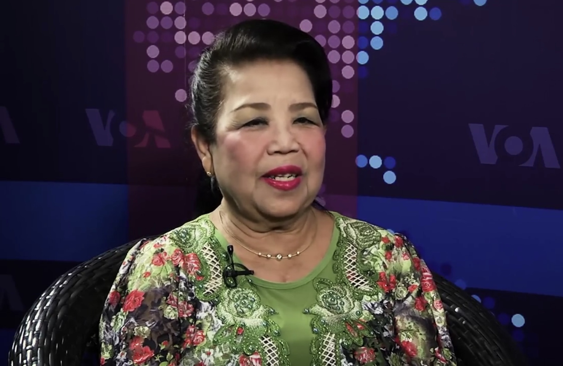 Mar Mar Aye is a prolific Burmese singer and considered one of the most successful female singers in the history of Burmese classical music.